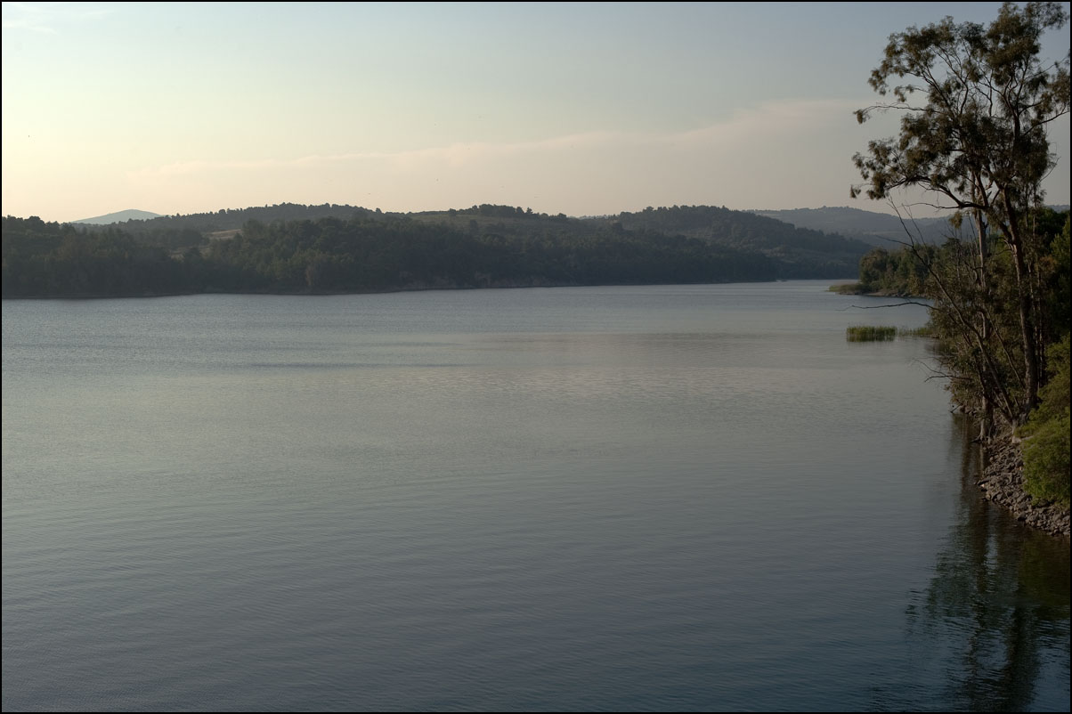 Landscape of Artificial Lake of Marathon, Attica, Greece.